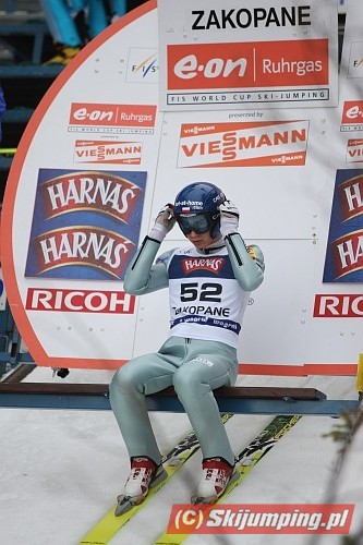 FIS Ski Jumping World Cup 2008: Kamil Stoch - saturday qualifications